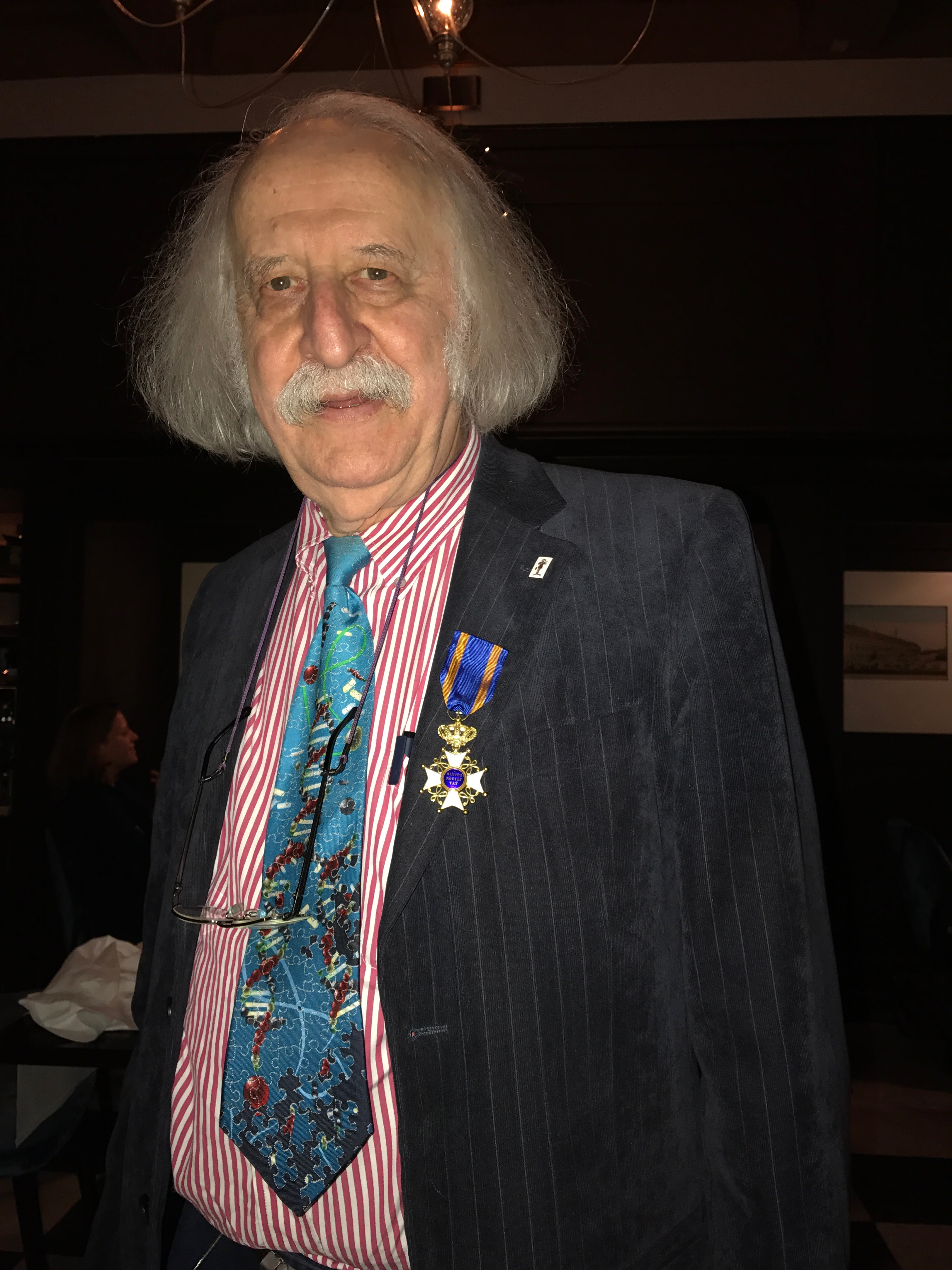 Grzegorz Rozenberg with his decoration of Knight of the Order of the Netherlands Lion.